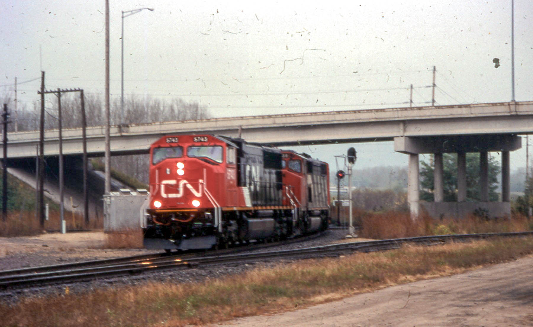 Canadian National operated over BNSF between Duluth and Chicago through the use of a "Haulage Agreement." They were CN's trains and locomotives but they were operated by BNSF train crews. Unlike trackage rights, a haulage agreement did not require regulatory approval to implement.